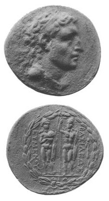 Coin of Eumenes II